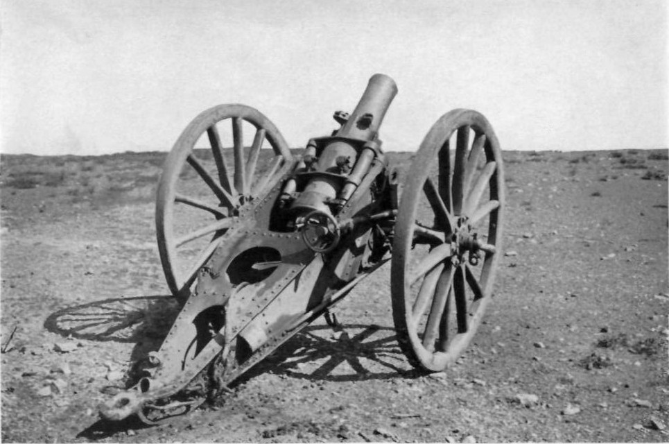 Photograph of British BL 5 inch Howitzer.